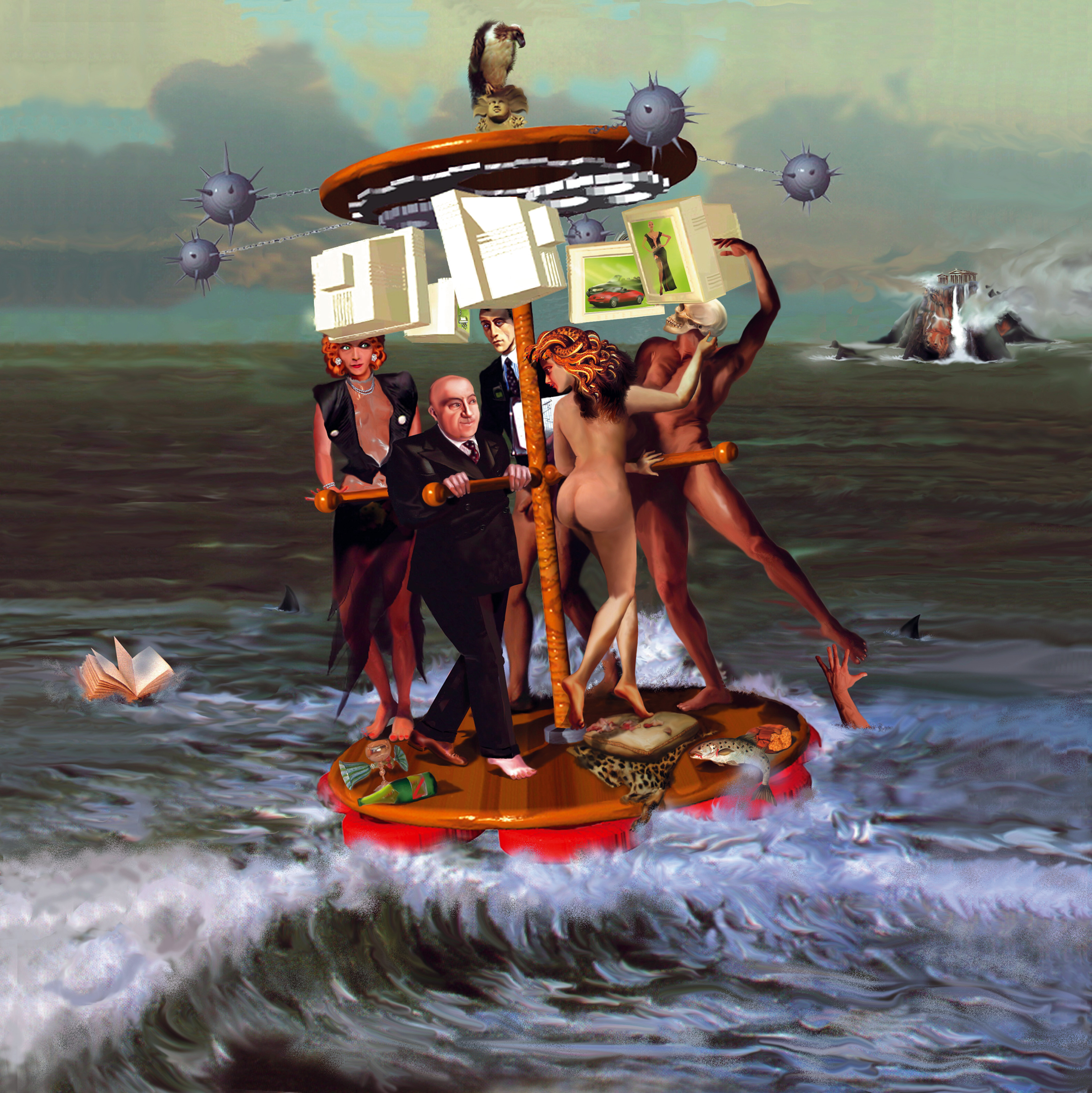 "The damned" by Lorenzo Paolini: a metaphor of consumism and culture's barbarization. Jailed where they think to freely run, they can't stop because a delay means death.